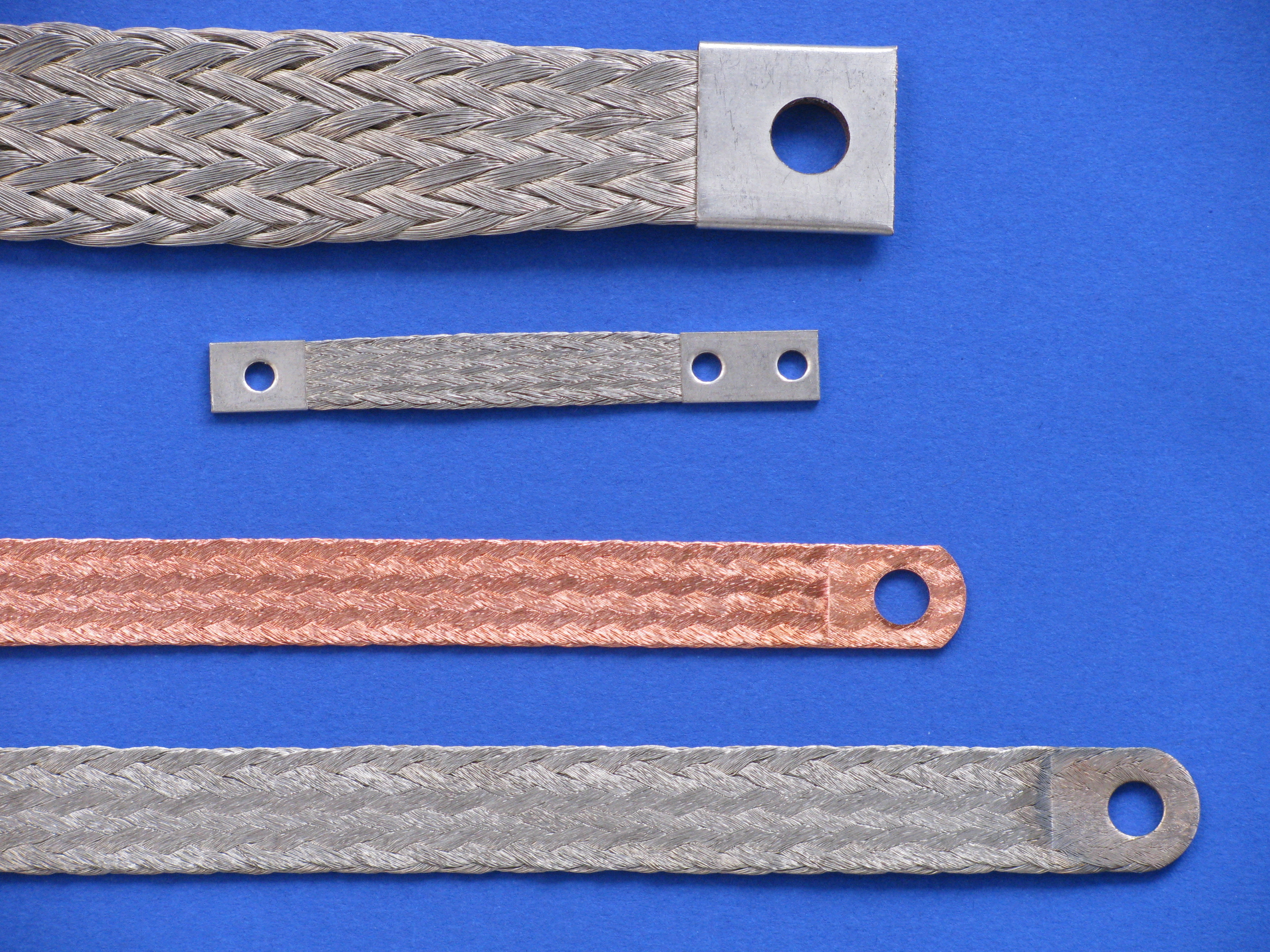 earth braids with presswelded ends and with punched tubes